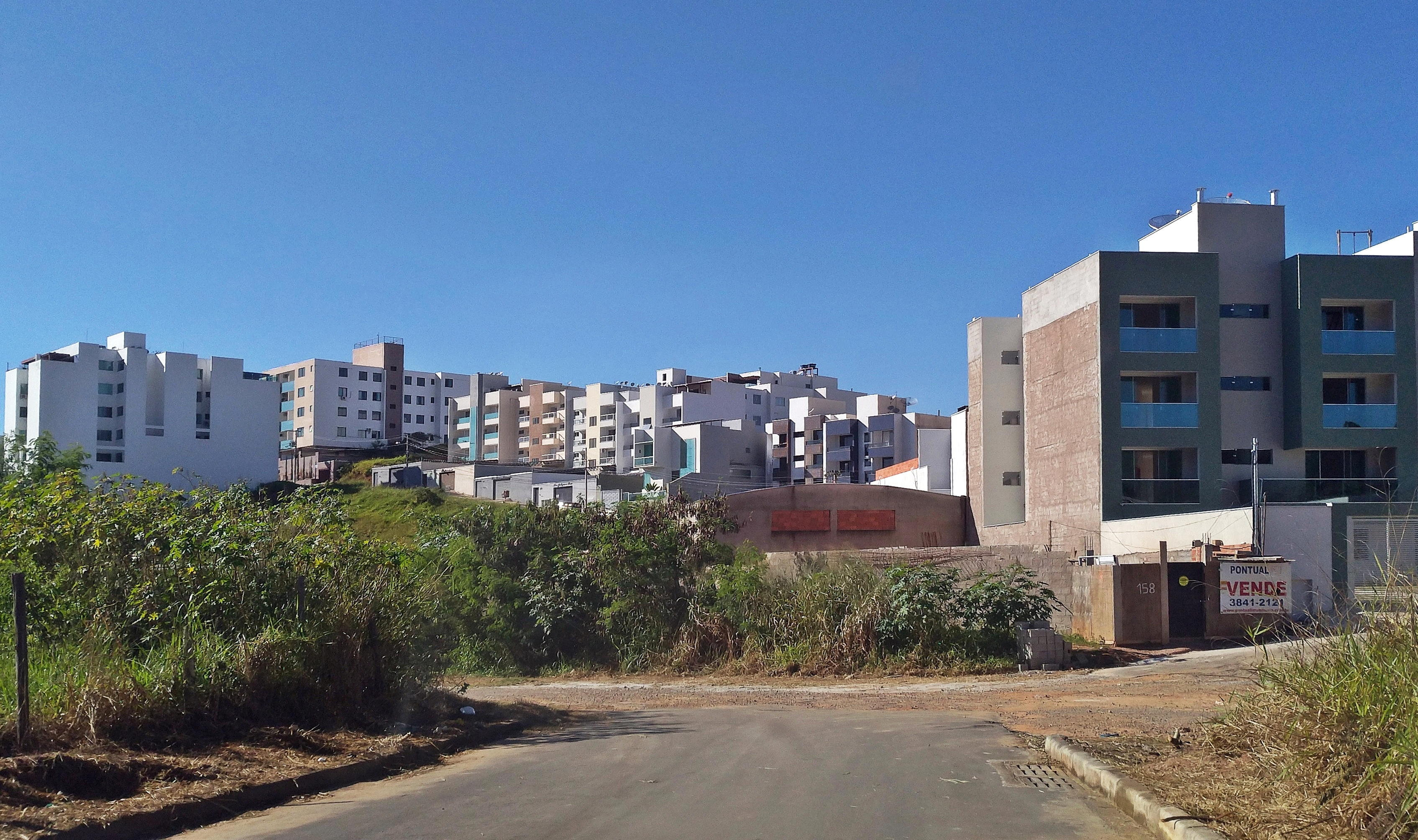 Vacant lots and buildings in the Belvedere neighborhood, in Coronel Fabriciano, Minas Gerais, Brazil.